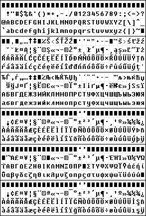 Code pages 1250, 1251, 1252 and 1254, shown in the Fixedsys font